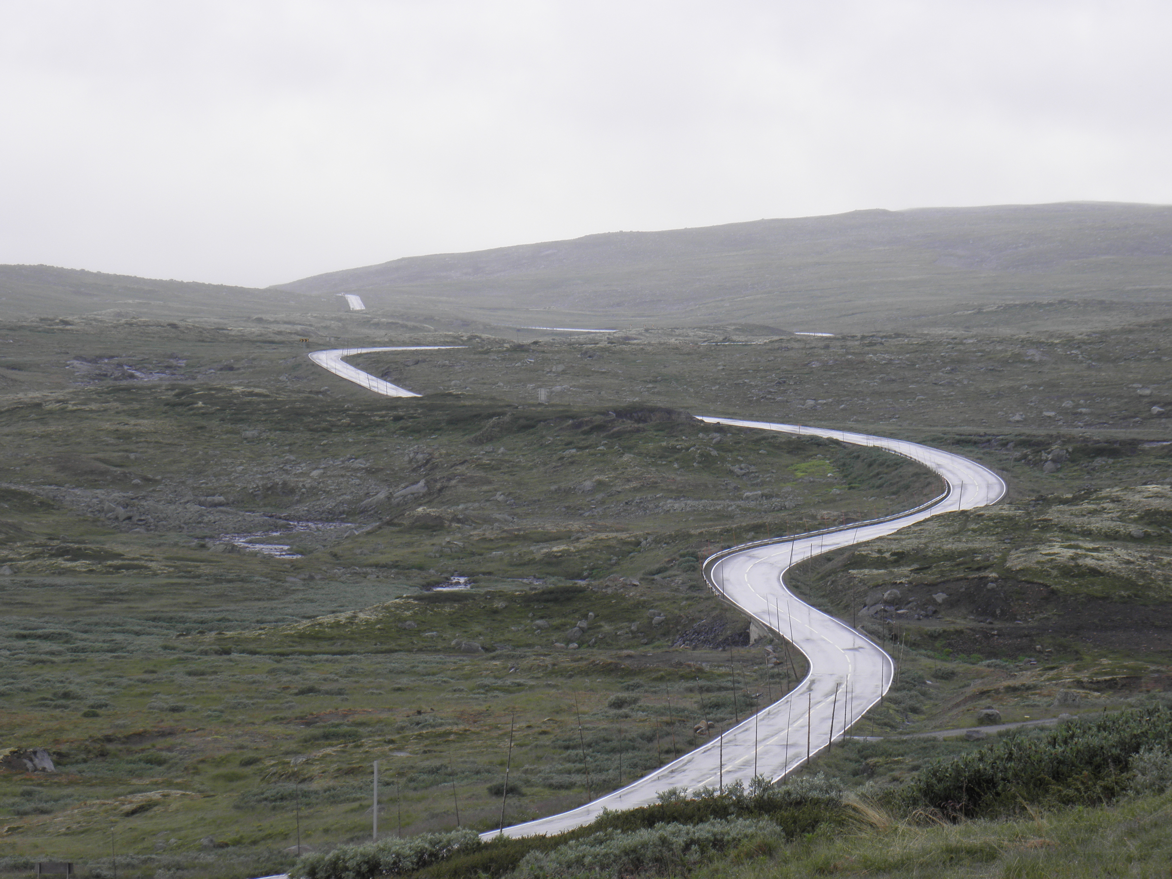 Section of a public road crossing Hardangervidda in Norway. Photo is taken near the lake of Halnefjorden.